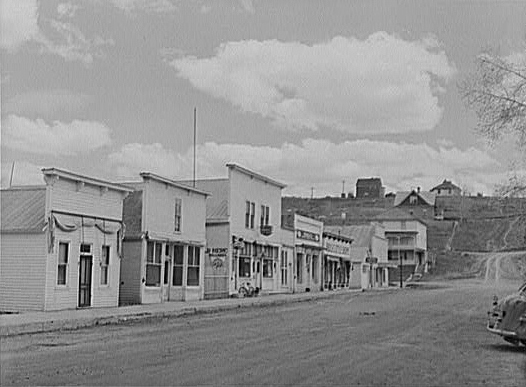 TITLE: Hayden, Colorado CALL NUMBER: LC-USF34- 065658-D [P&P] REPRODUCTION NUMBER: LC-USF34-065658-D (b&w film neg.) MEDIUM: 1 negative : safety ; 3 1/4 x 3 1/4 inches or smaller. NOTES: Title and other information from caption card. Transfer; United States. Office of War Information. Overseas Picture Division. Film copy on SIS roll 11, frame 867. FORMAT: Safety film negatives. DIGITAL ID: (intermediary roll film) fsa 8c22035 OTHER NUMBER: G 255 CARD #: fsa2000046406/PP